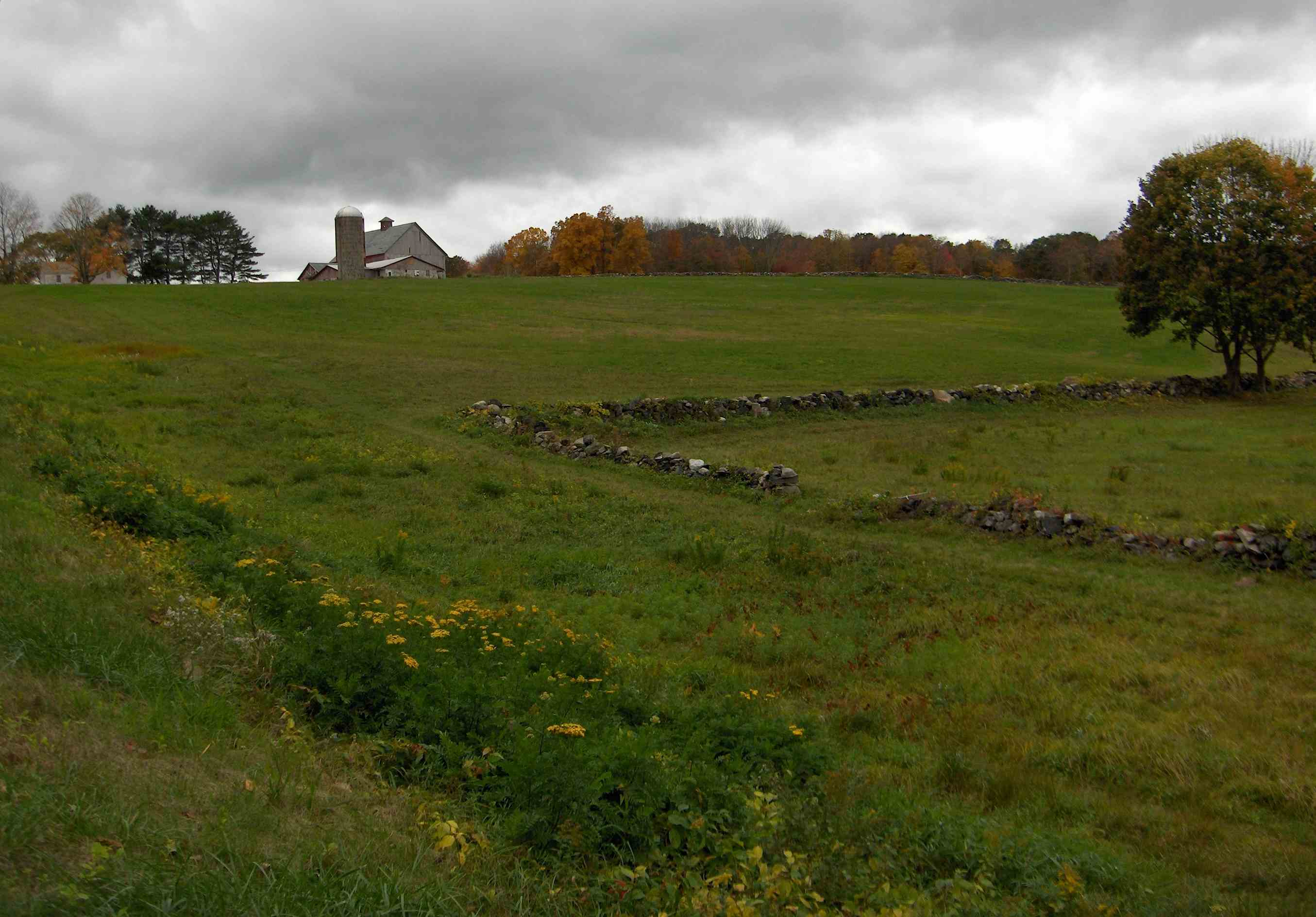 Encampment site of Rochambeau's army on the March to the battle of Yorktown in 1781. Located on Bolton Center Road, Bolton CT USA